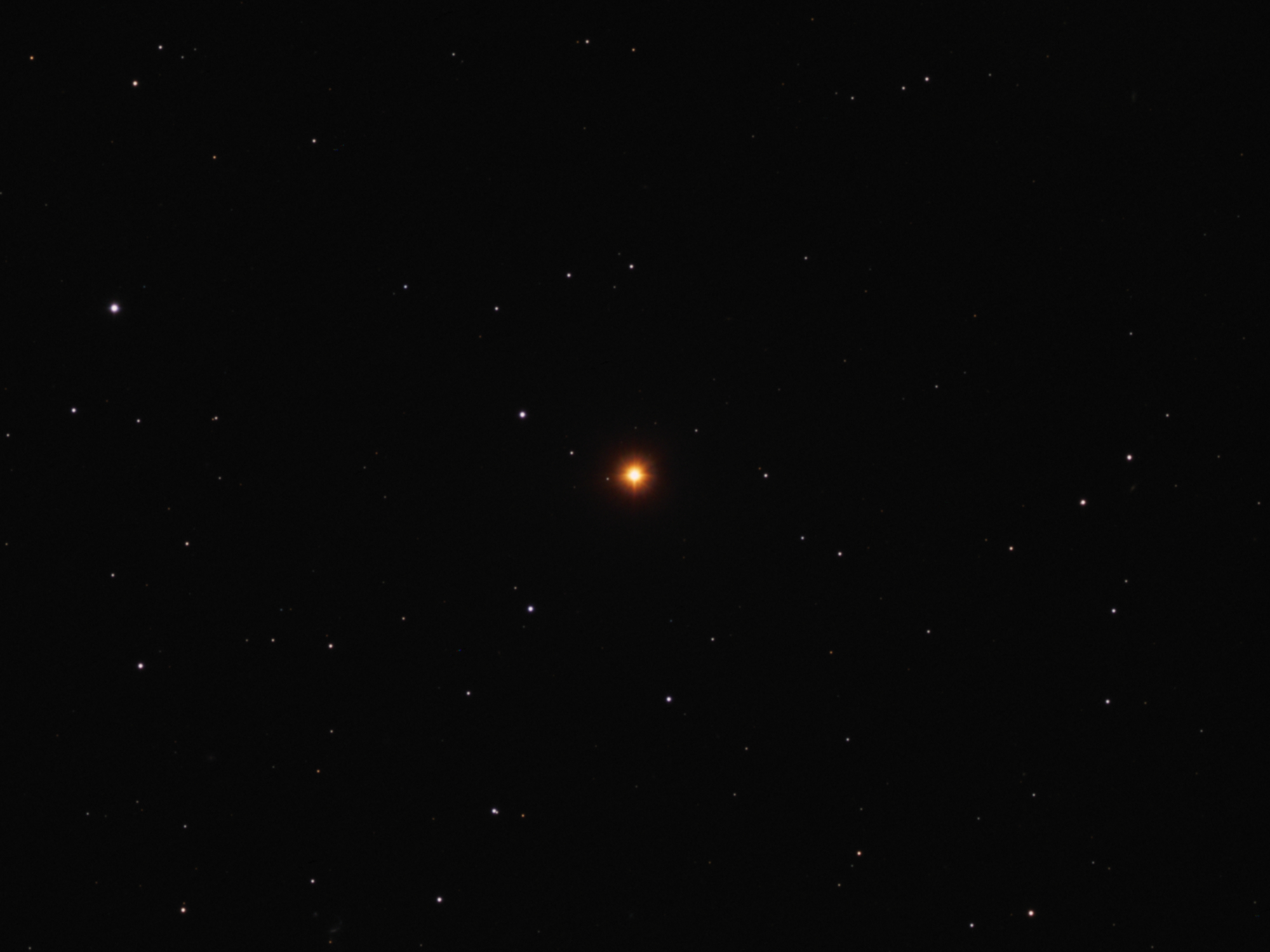 Y Canum Venaticorum in optical light, photographed from Edmonton, Canada on the nights of March 28 and 29, 2019. Y Canum Venaticorum is a striking red carbon star.